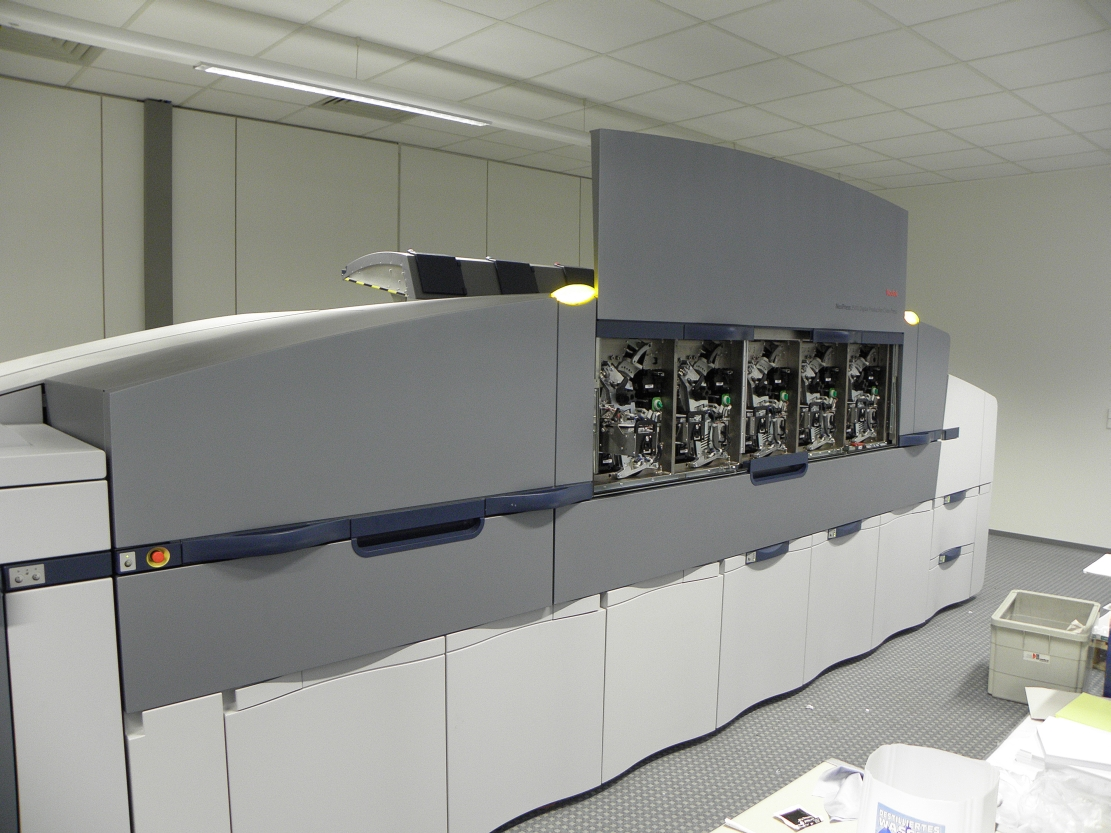 Digital Printing presses